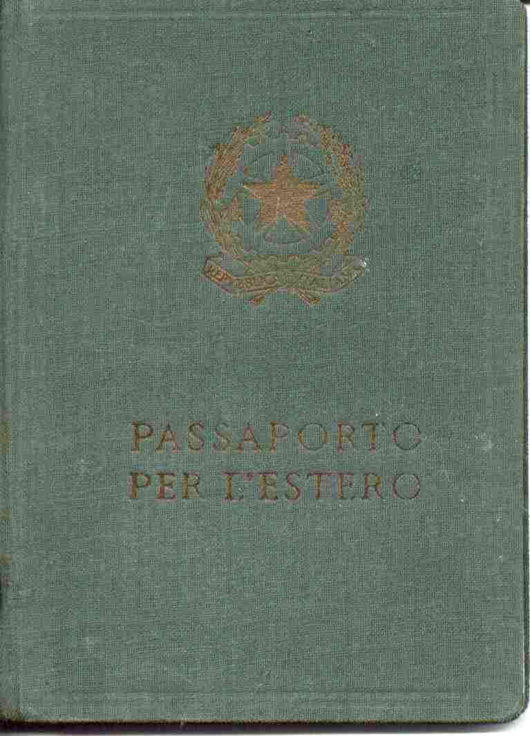 Cover of a 1953 Italian passaport.